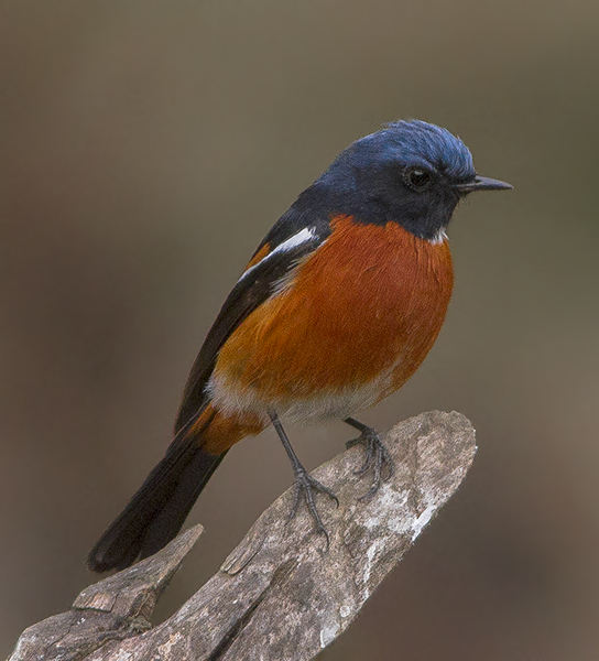 The species White-throated Redstart had been photographed during the birding tour of GoingWild at Khangchendzonga Biosphere Reserve in West Sikkim, Sikkim, India on 16.02.2016.